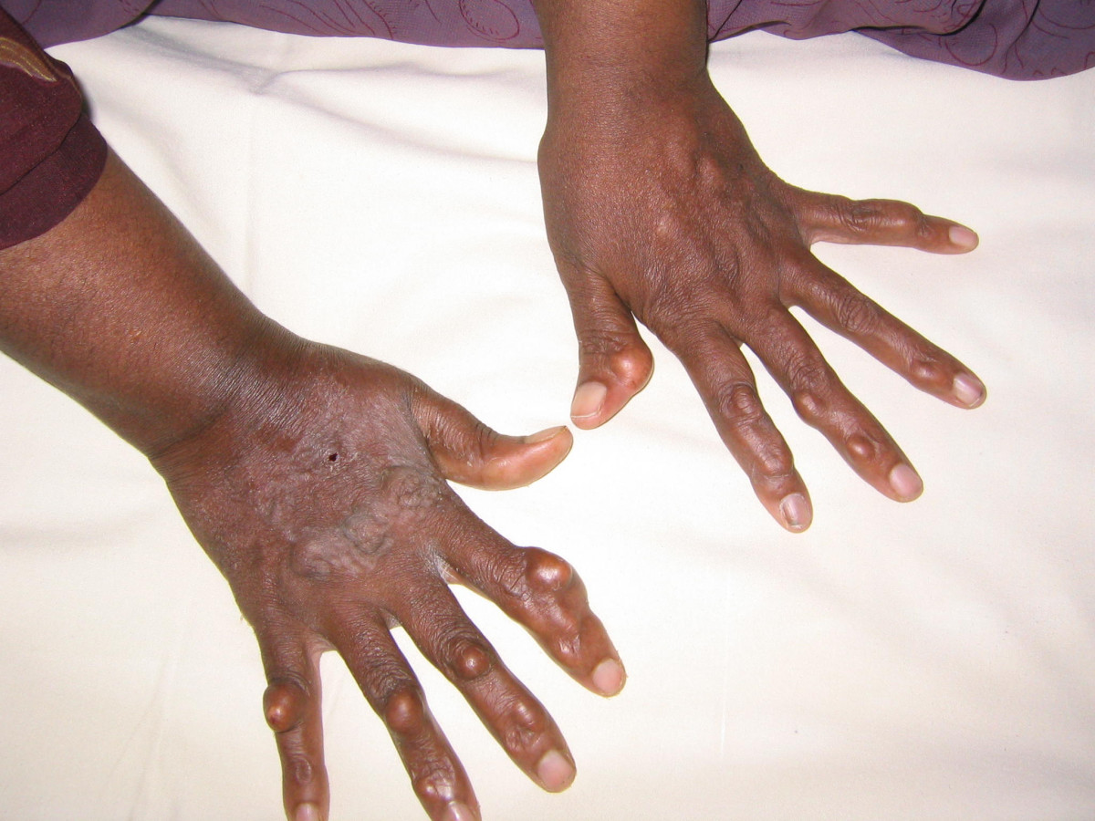 Xanthomas. Photograph of patient's hands showing multiple xanthomas. More specifically, these are tendinous xanthomas.